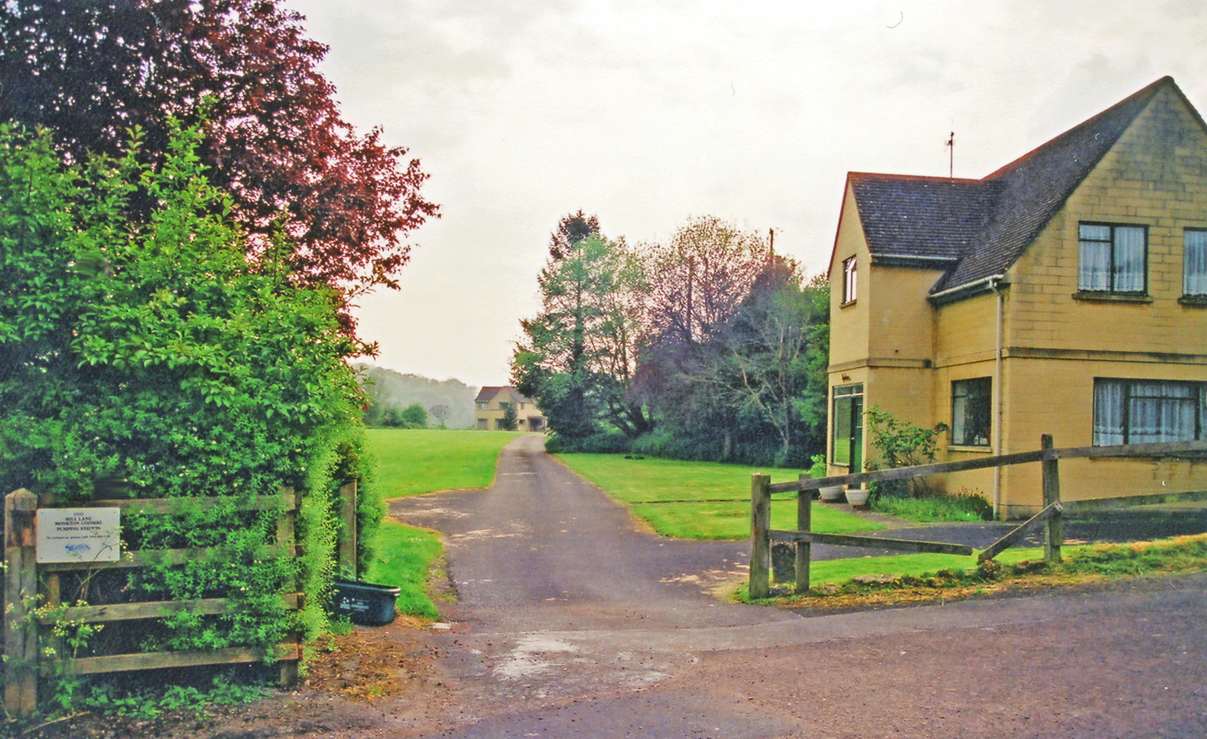 Site of Monkton Combe station. View SE: the ex-GWR Limpley Stoke - Halliford branch used to run left to right, but closed 21/9/25 to passenger and 15/2/51 to goods services.